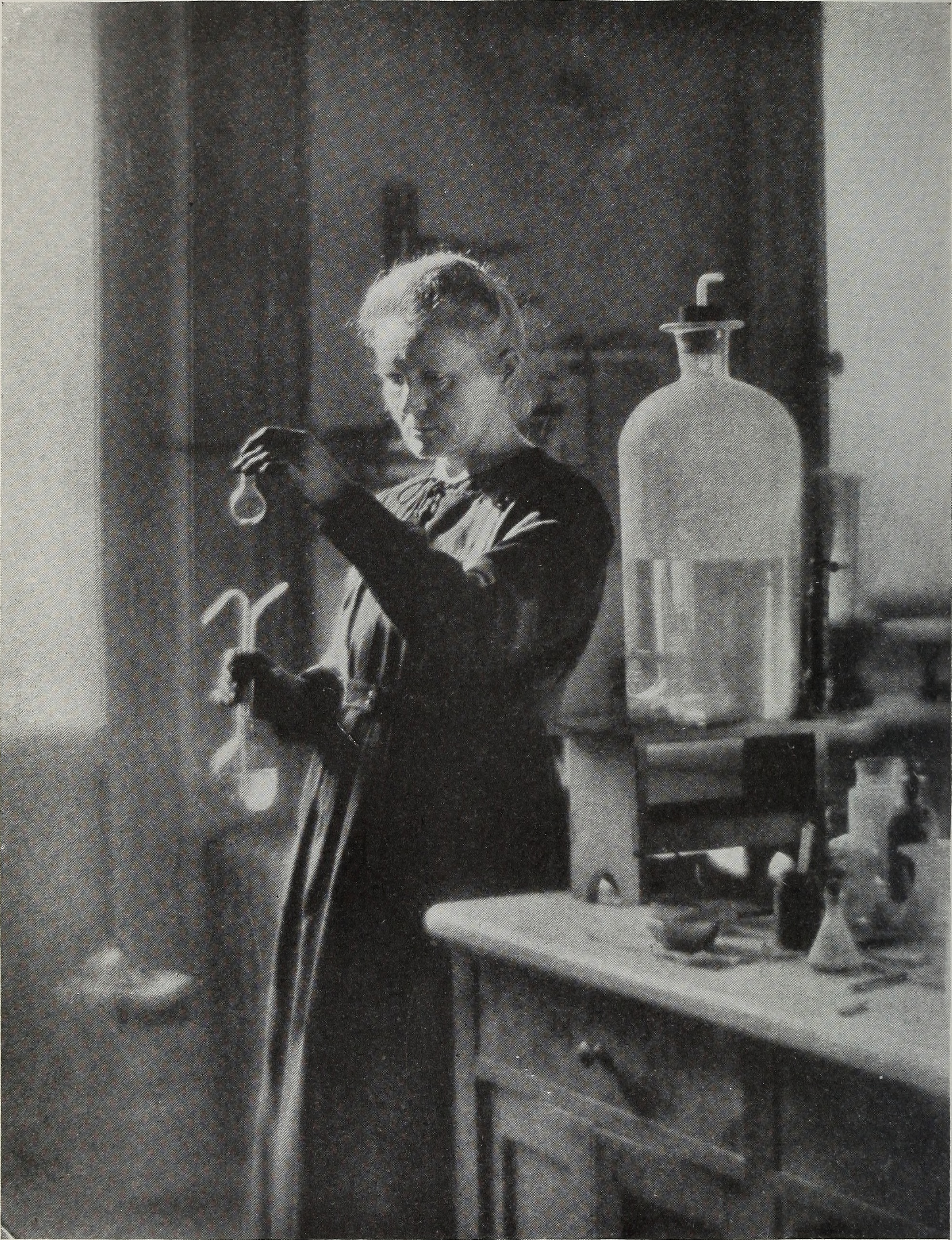 Title: Annual report of the trustees of the American Museum of Natural History for the year Identifier: annualreportoft531921amer Year: 1917 (1910s) Authors: American Museum of Natural History Subjects: American Museum of Natural History; Natural history museums Publisher: New York : [American Museum of Natural History] Text Appearing Before Image: ' Text Appearing After Image: Madame Marie Sklodowska Curie Co-Discoverer of Radium Elected Honorary Fellow of The American Museum of Natural History, April 20, 1921